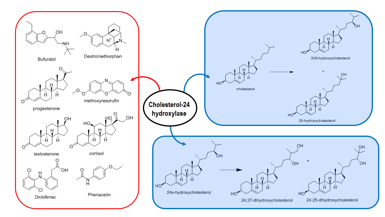 Substrates capable of metabolism via cholesterol-24 hydroxylase. The red box contains a list of xenobiotics (drugs) the enzyme can metabolize. The reactions in blue are commonly observed in the brain.